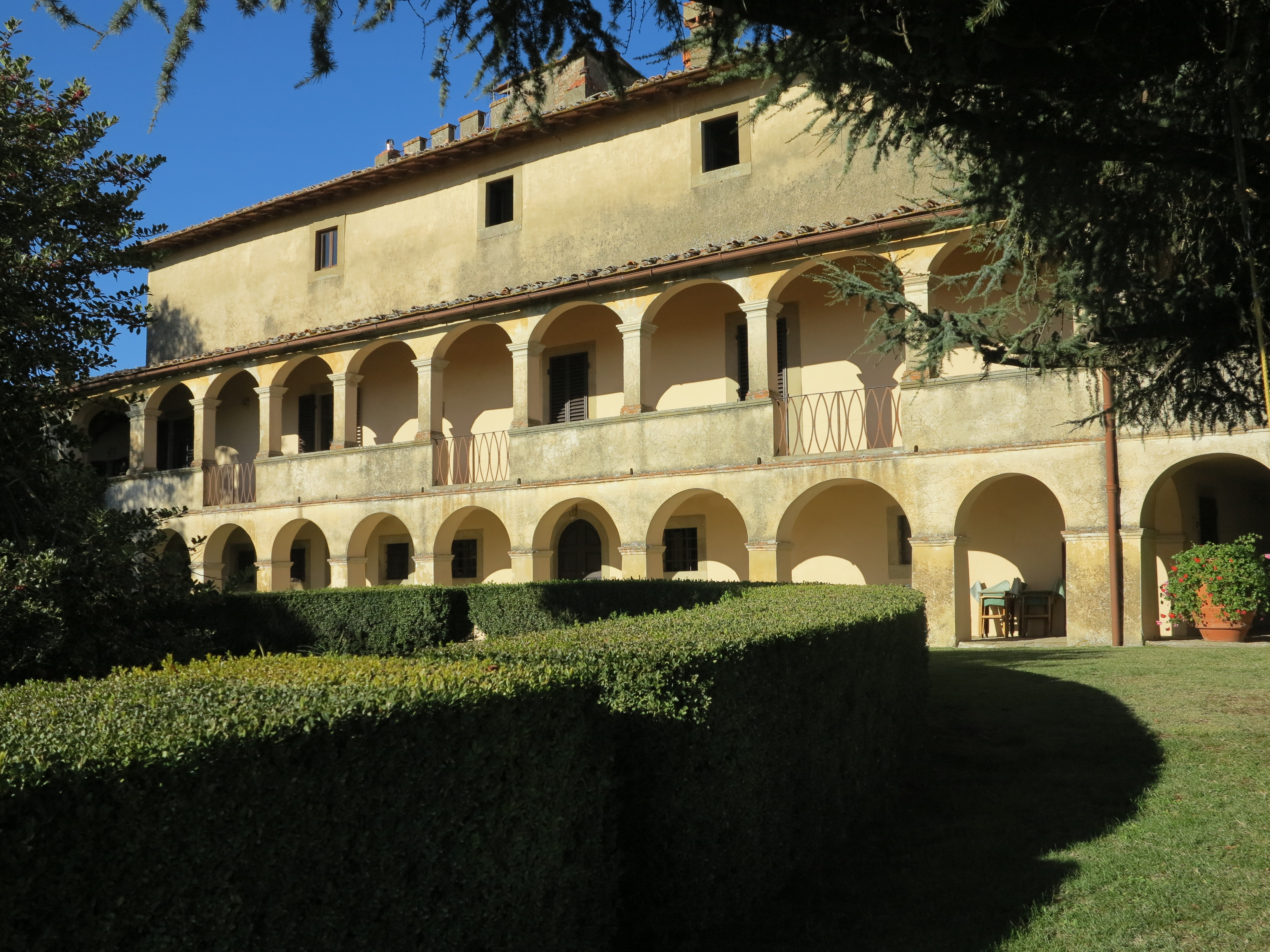 Montozzi Castle - rear facade